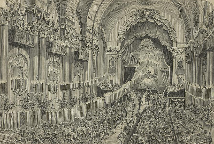 Wedding of HRH the Prince Royal Charles of Braganza - Wedding ceremony in the Church of Santa Justa, 22 May 1886.